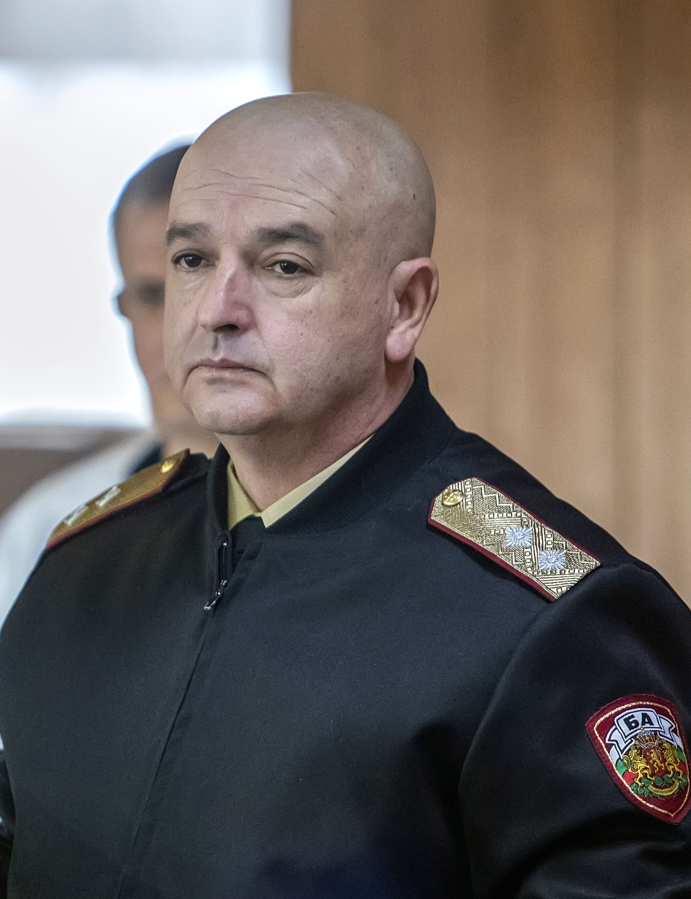 General Ventsislav Mutafchiiski - Bulgarian professor, doctor, officer, major-general of the Military Medical Service. Since February 24, 2020 he has been the Head of the National Coronavirus Operational Headquarters in Bulgaria